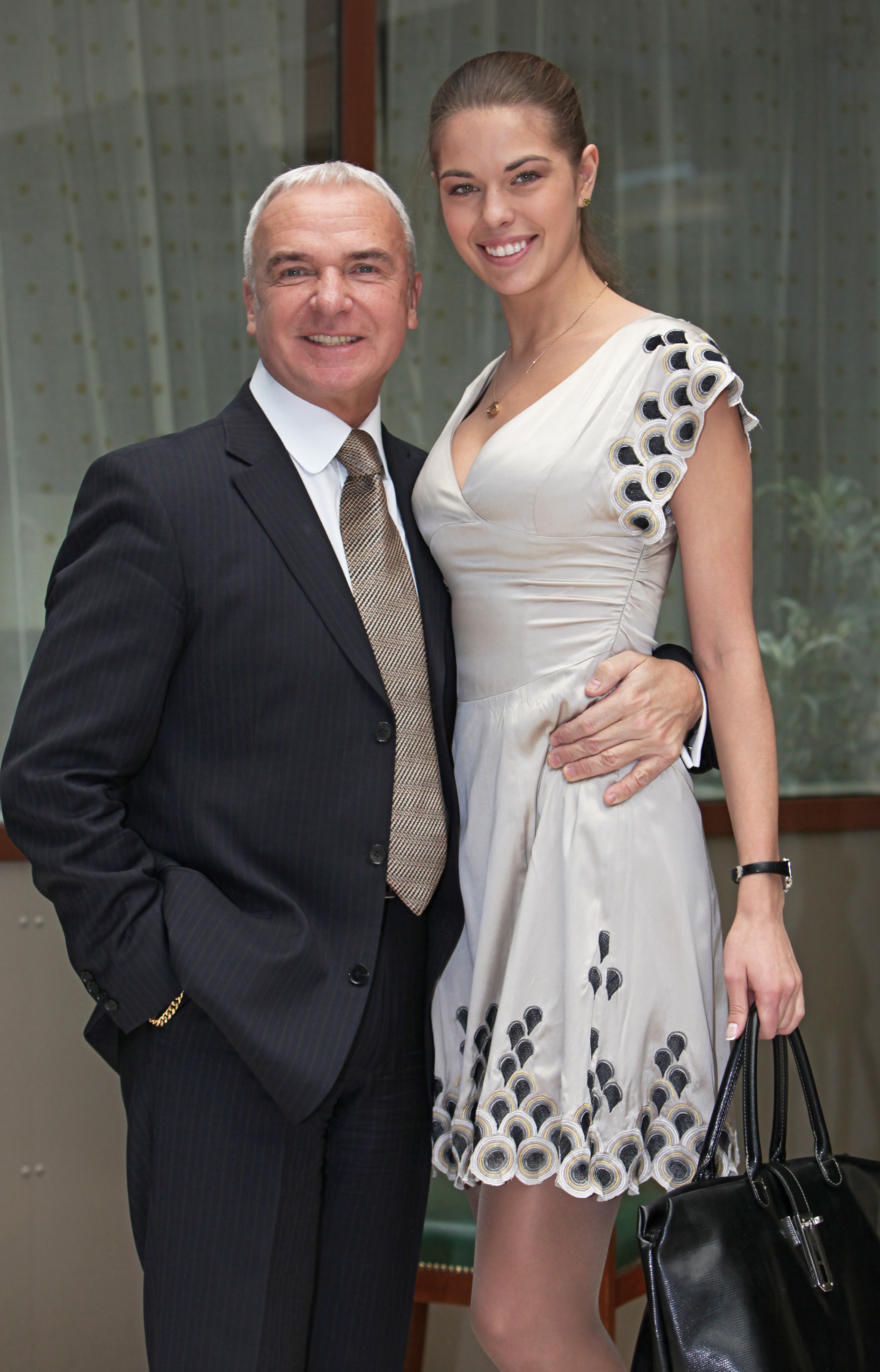 2010. President "Russia Dance Union" Stanislav Popov and "Vice-Miss Universe 2008" Vera Krasova. At the rehearsal, the Eighth Viennese Ball in Moscow.